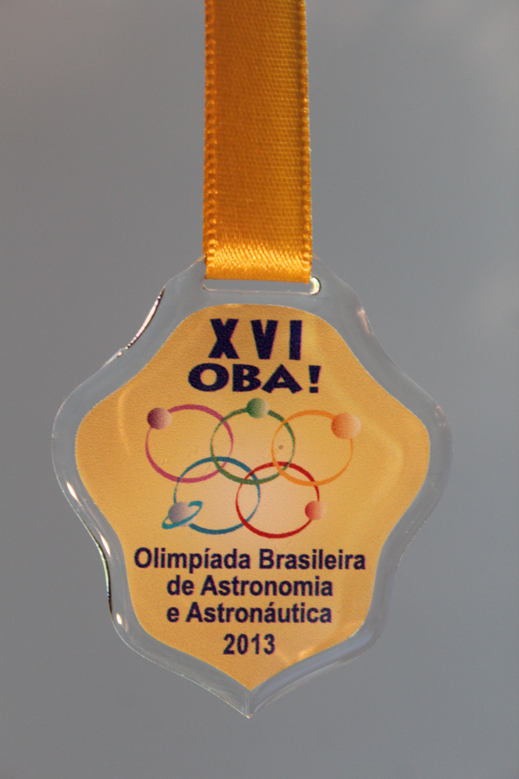 Gold medal of XV OBA (Olimpíada Brasileira de Astronomia e Astronáutica) of 2013.